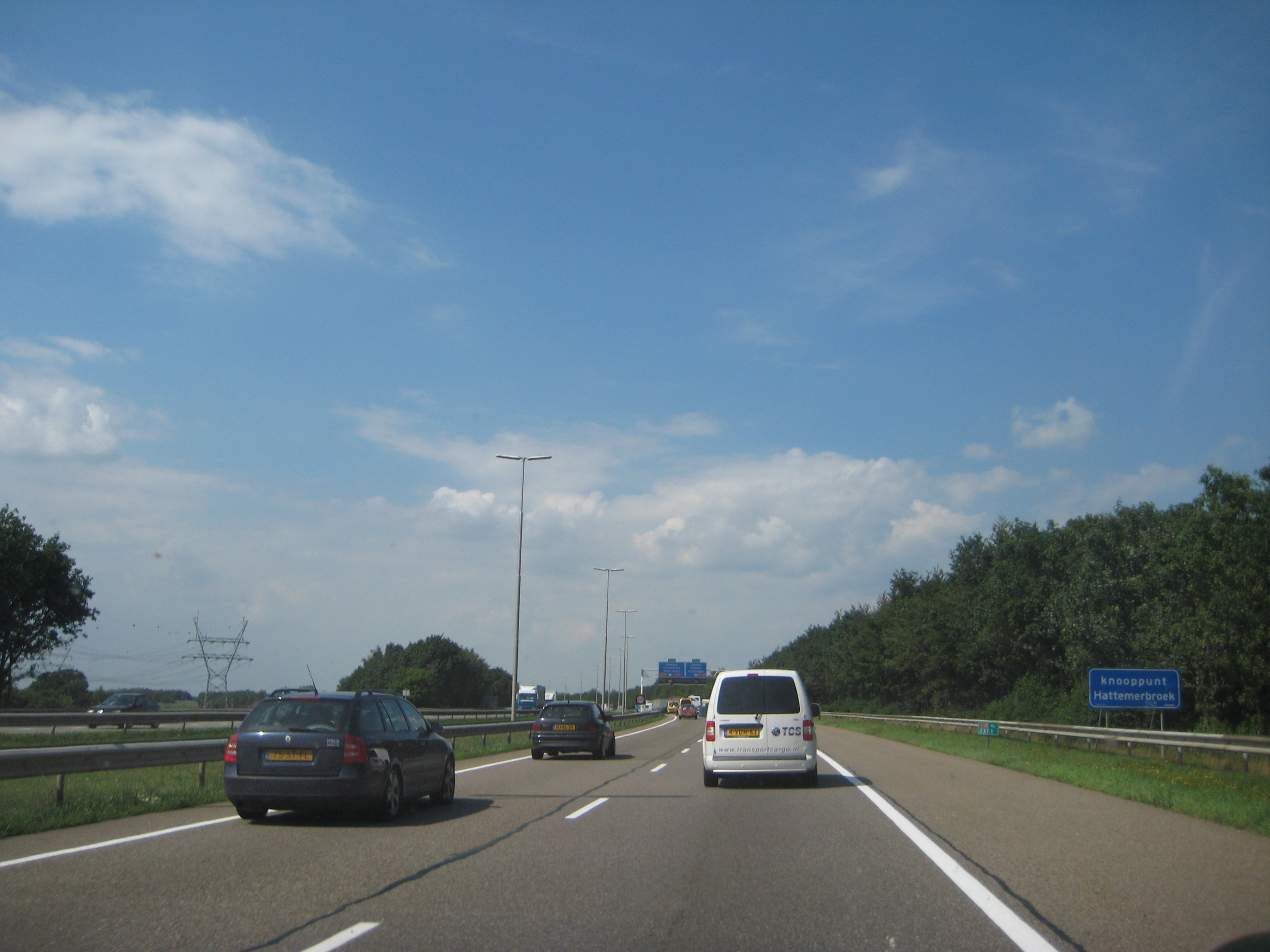 The Rijksweg 50 near Zwolle before the Interchange Knooppunt Hattemerbroek.